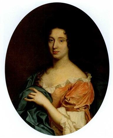 Portrait of Françoise Bertaut de Motteville, by Nicolas de Largillière.